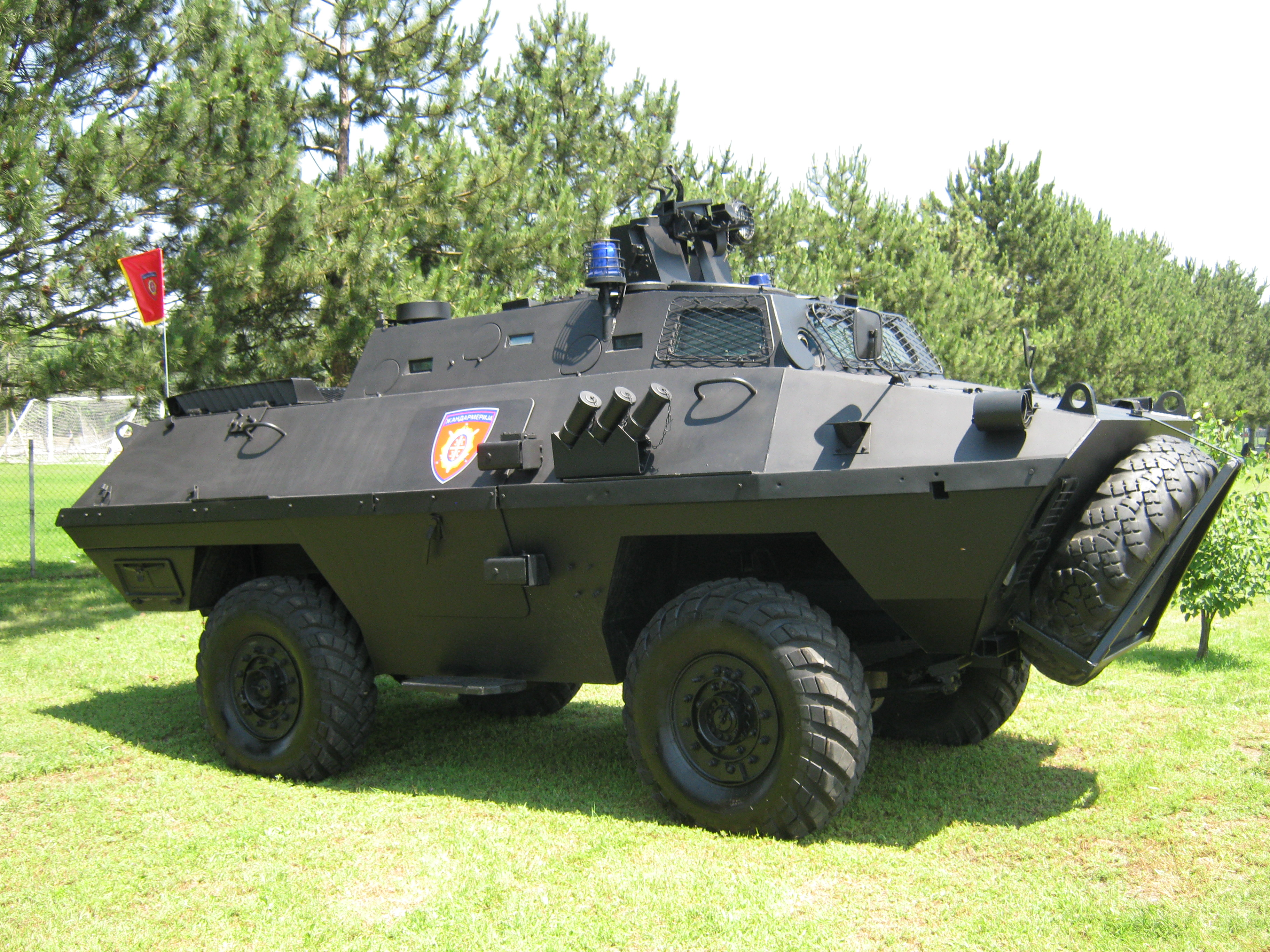 BOV of Serbian Gendarmerie